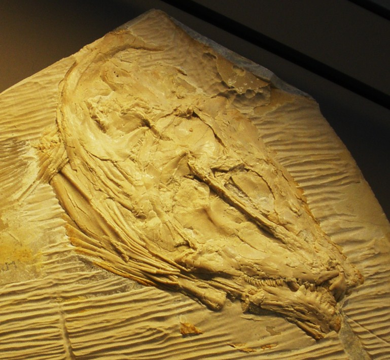 Fossil of Callopterus, an extinct fish. Took the photo at Musee d'Histoire Naturelle, Brussels